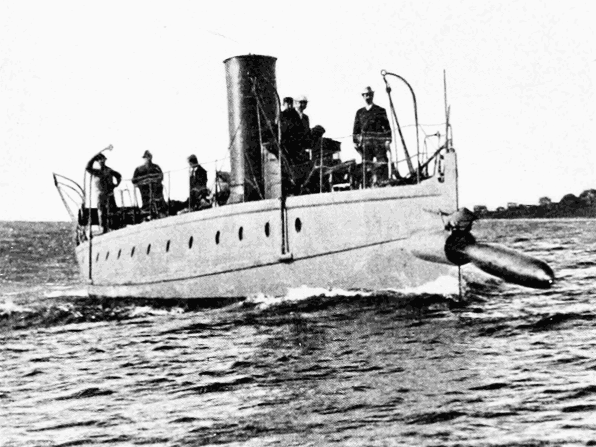 Bow discharge in torpedo practice